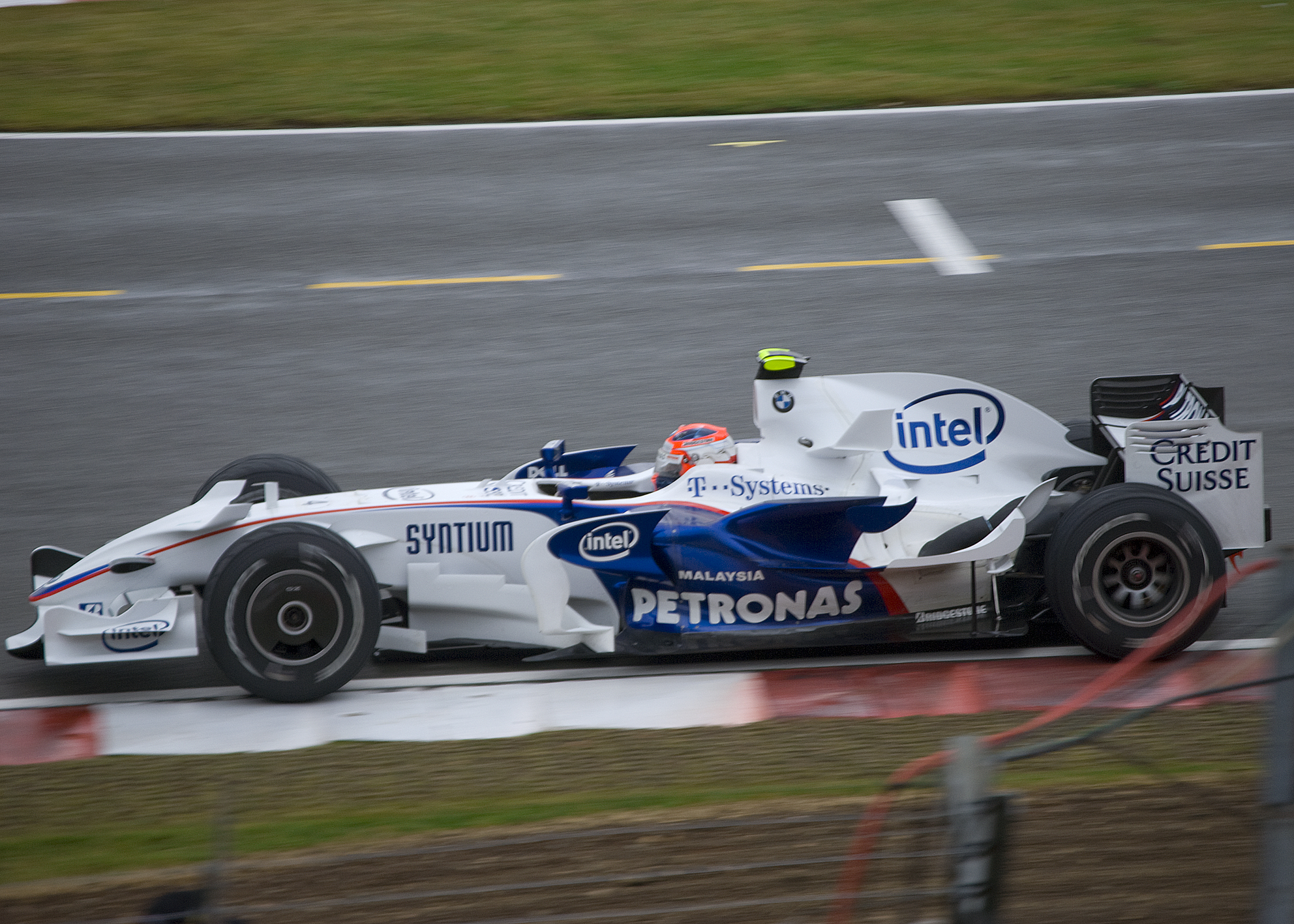 Robert Kubica driving for BMW Sauber at the 2008 British Grand Prix.